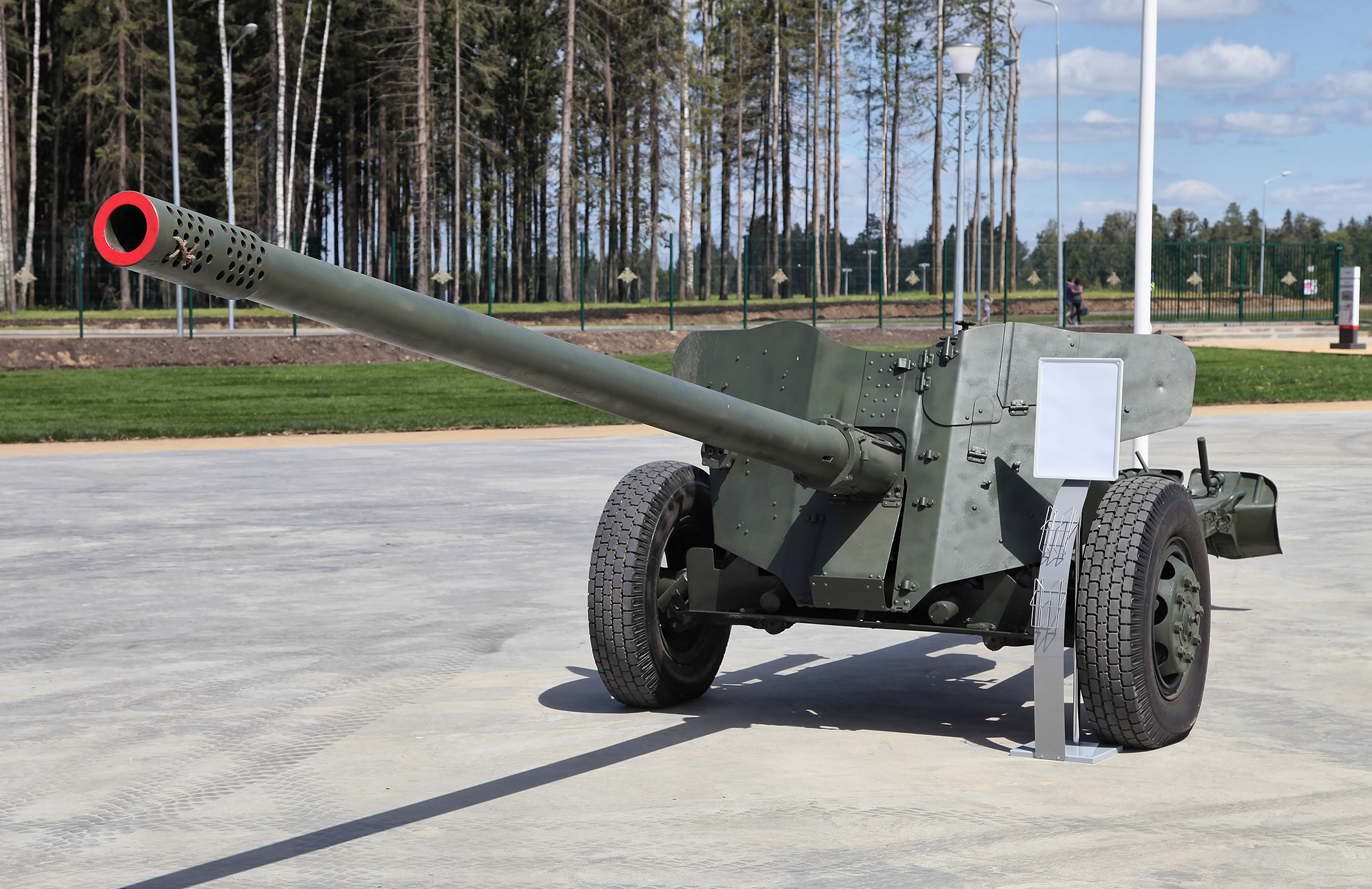 100mm antitank gun MT-12